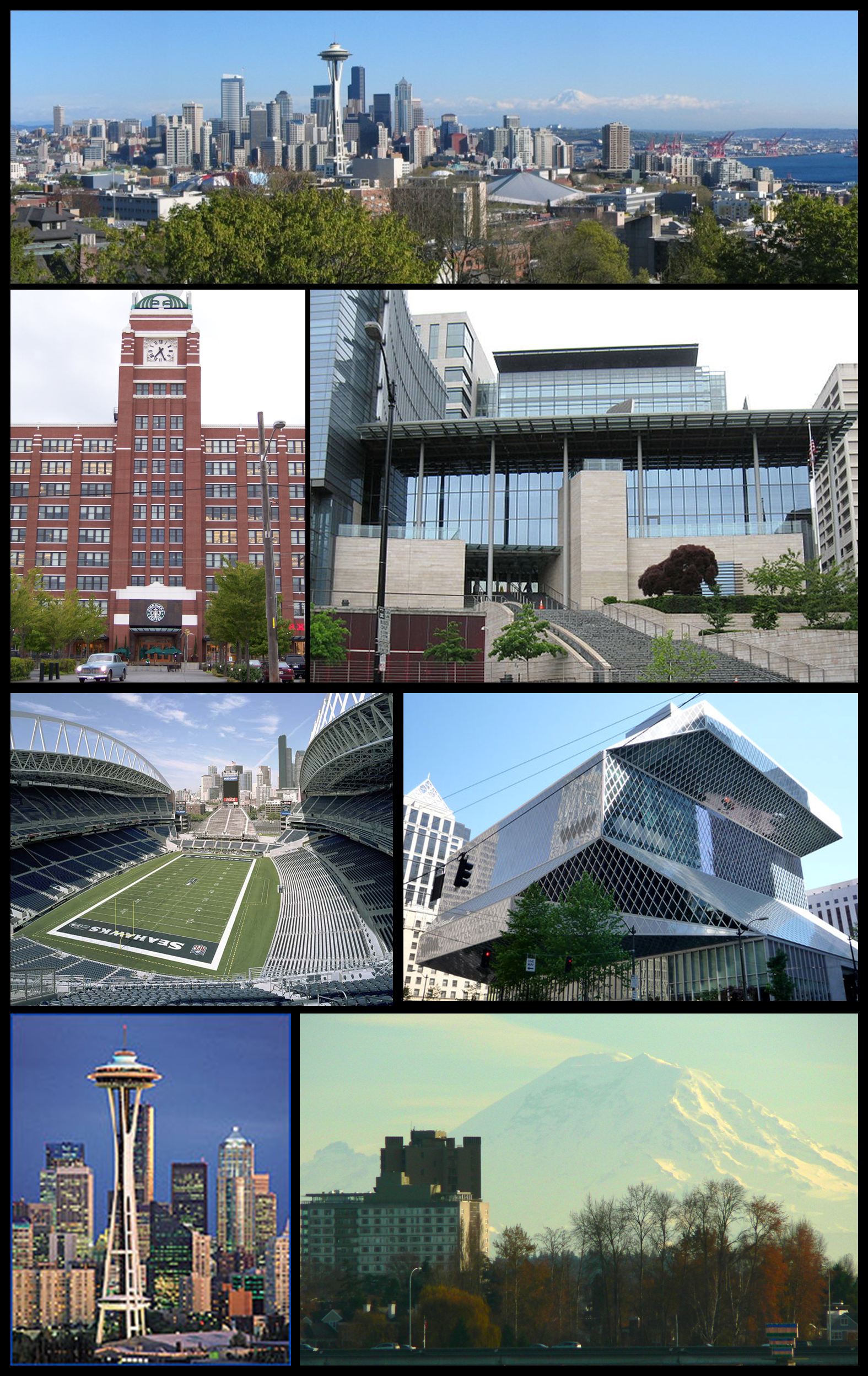 A montage of Seattle images, made from multiple existing images: File:Qwest Field North.jpg File:Seattle-Skyline1.jpg File:Seattle City Hall 001.jpg File:Seattle from kerry park.jpg File:Starbucks Headquarters Seattle.jpg File:Mount Rainier 27477.JPG File:2009-0604-19-SeattleCentralLibrary.jpg